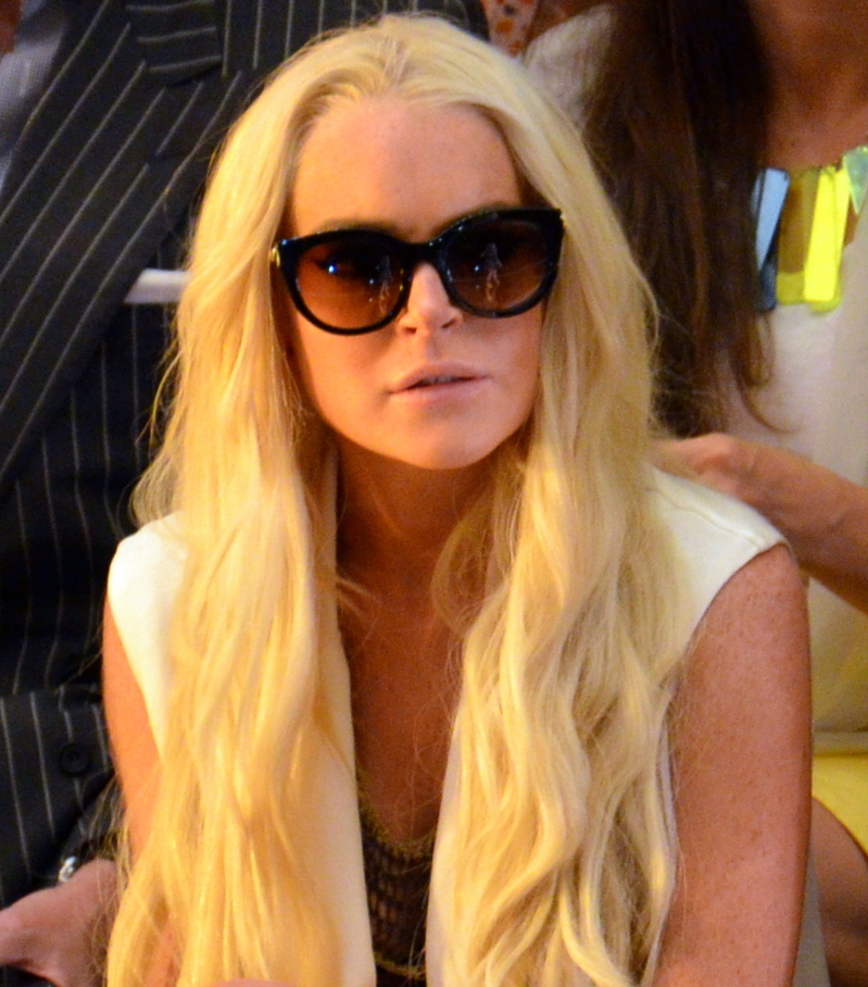 Lindsay Lohan at the Cynthia Rowley SS2012.